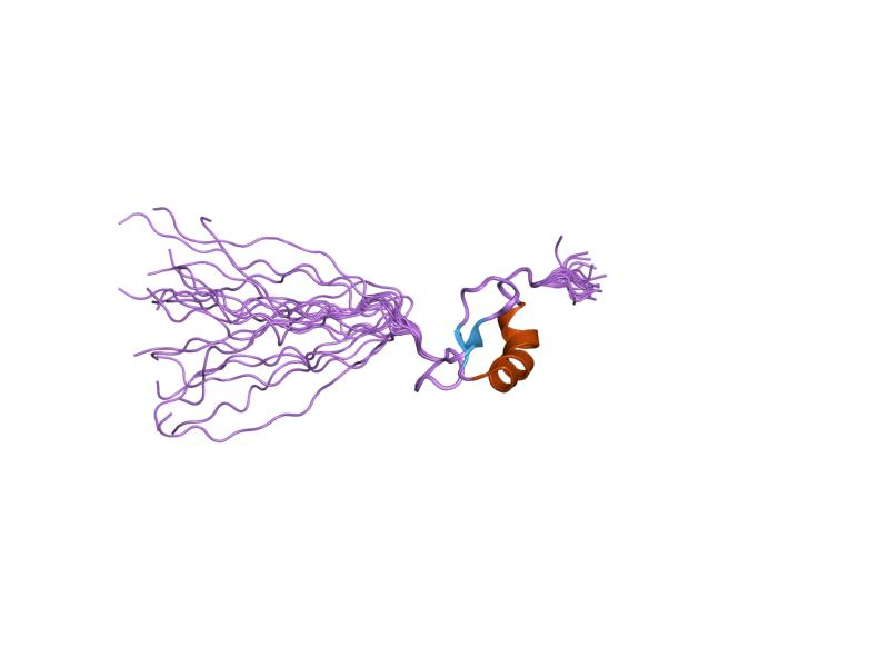 Cartoon representation of the molecular structure of protein registered with 2dj8 code.